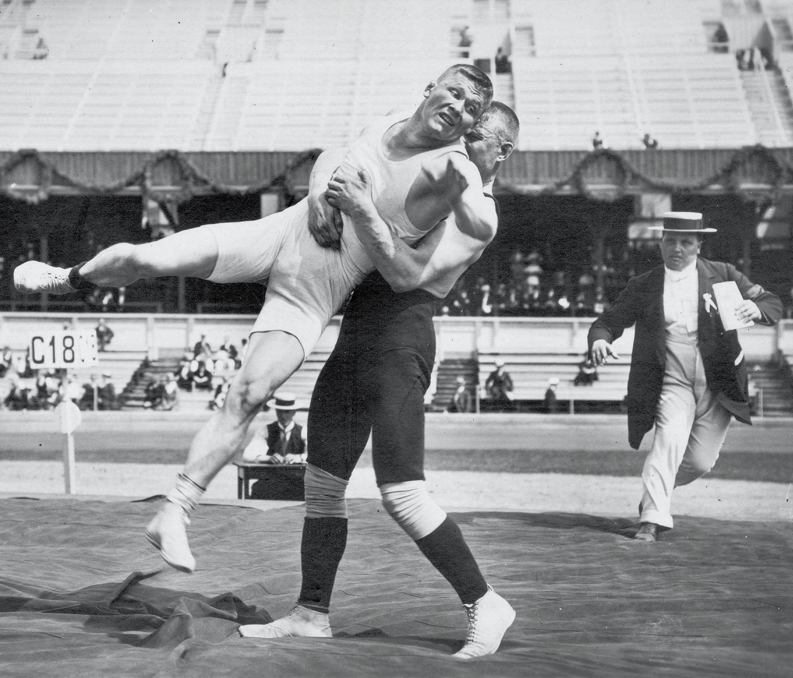 Martin KLEIN of Estonia (Russian Empire) (right) v. Alfred ASIKAINEN of Finland in a Greco-Roman wrestling match This Swedish photograph is in the public domain in Sweden because one of the following applies: The work is non-artistic (journalistic, etc.) and has been created before 1 January 1969 (SFS 1960:729, § 49a). The photographer is not known, and cannot be traced, and the work has been created before 1 January 1949 (SFS 1960:729, § 44). If the photographer died before 1949, PD-old-70 should be used instead of this tag. You must also include a United States public domain tag to indicate why this work is in the public domain in the United States. Note that a few countries have copyright terms longer than 70 years: Mexico has 100 years, Jamaica has 95 years, Colombia has 80 years, and Guatemala and Samoa have 75 years. This image may not be in the public domain in these countries, which moreover do not implement the rule of the shorter term. Côte d'Ivoire has a general copyright term of 99 years and Honduras has 75 years, but they do implement the rule of the shorter term. Copyright may extend on works created by French who died for France in World War II (more information), Russians who served in the Eastern Front of World War II (known as the Great Patriotic War in Russia) and posthumously rehabilitated victims of Soviet repressions (more information).